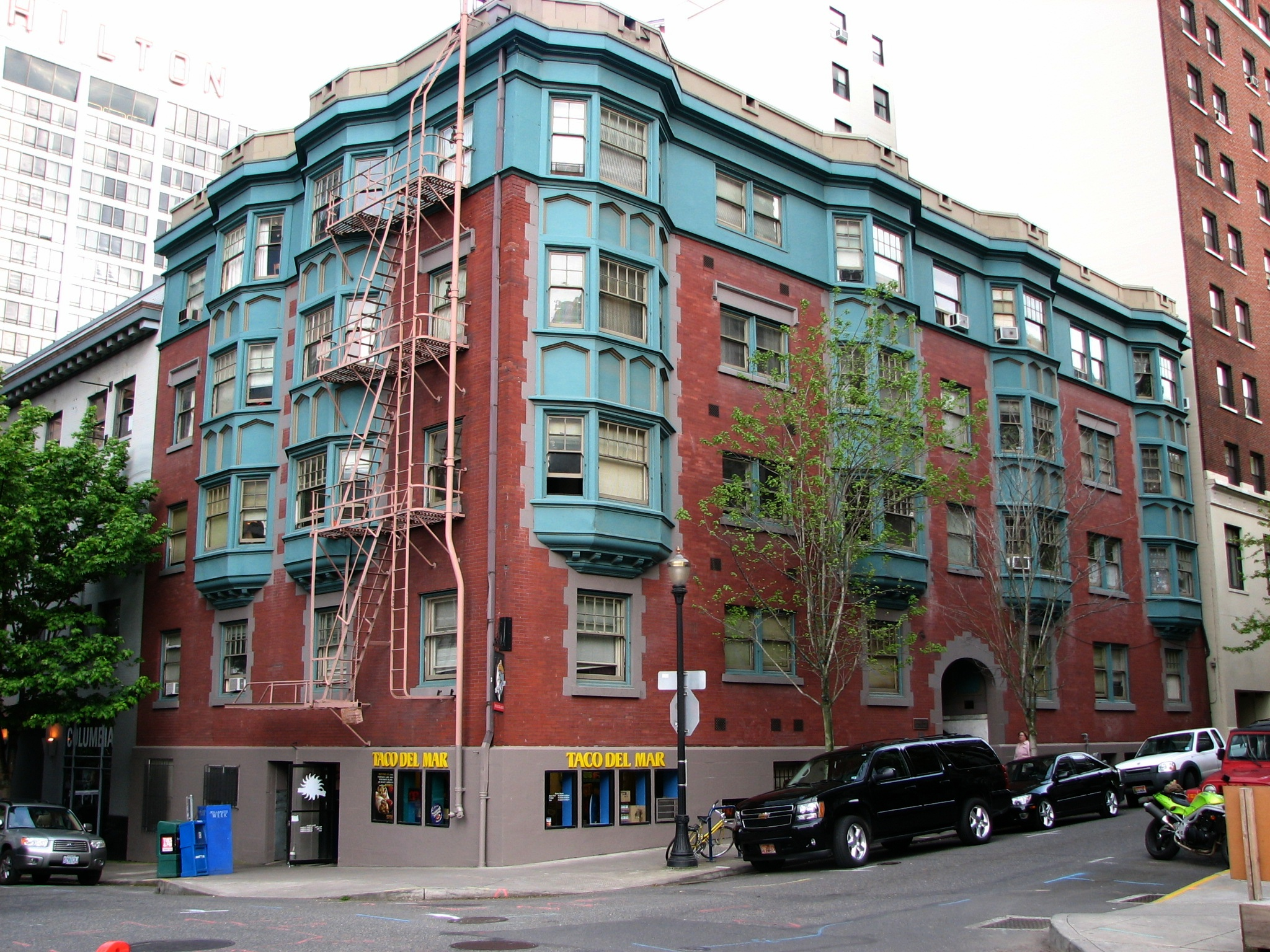 The Wheeldon Apartment Building at 910 Southwest Park Avenue in Portland, Oregon, United States, is listed on the US National Register of Historic Places.